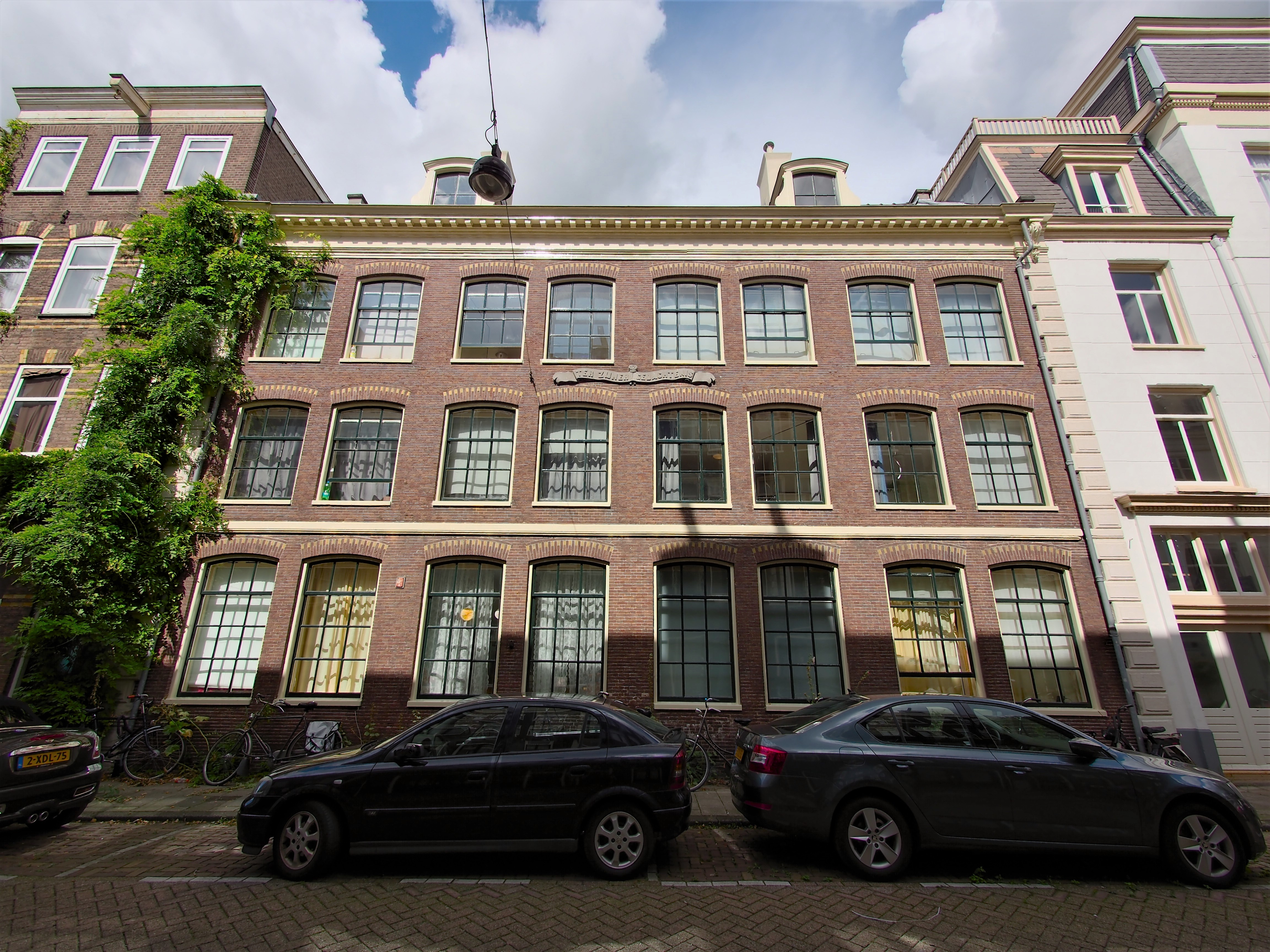 Photo taken in Amsterdam, The Netherlands.